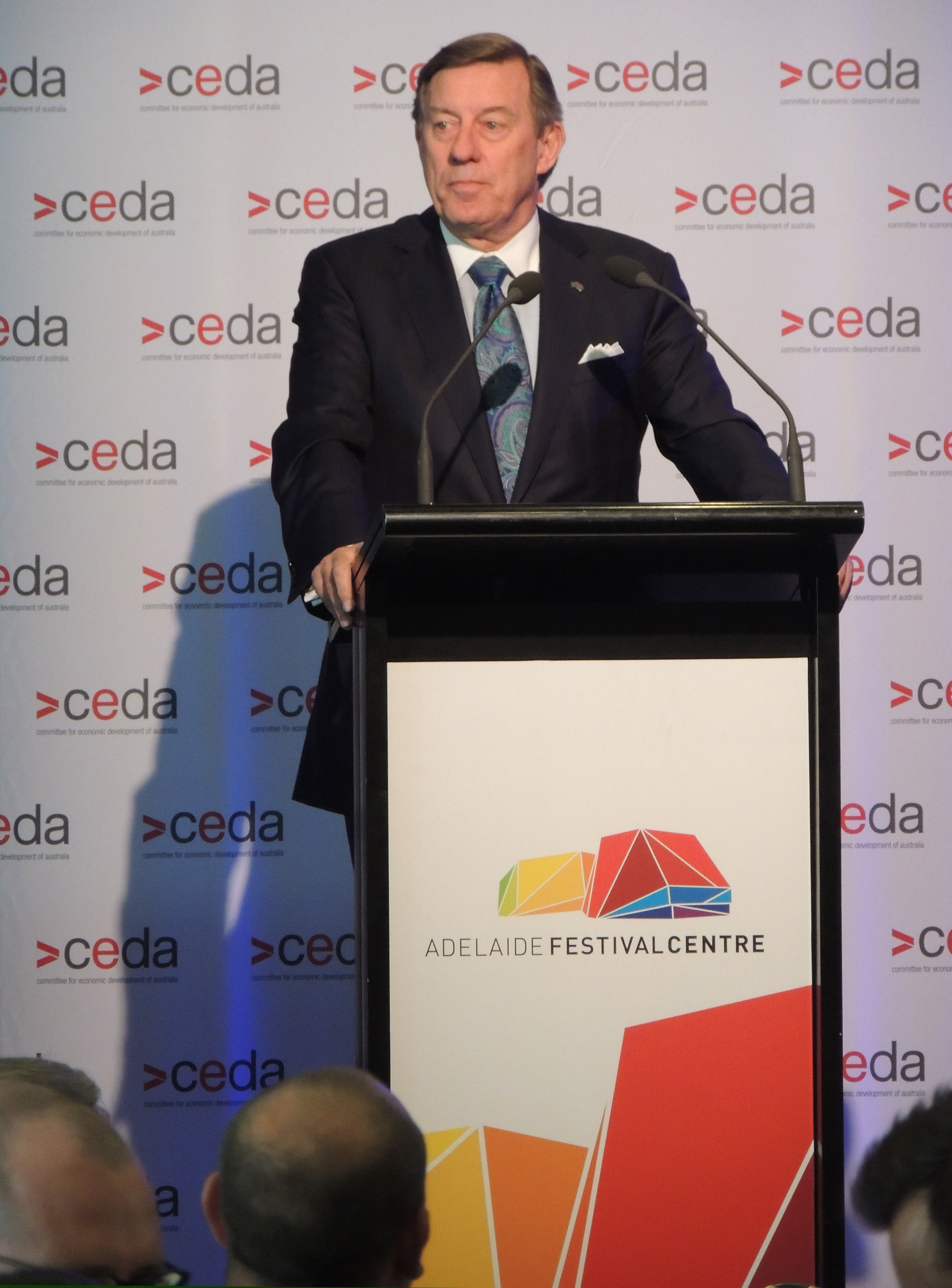 Raymond Spencer speaks at CEDA State of the State event - Adelaide, South Australia, 9 June 2015